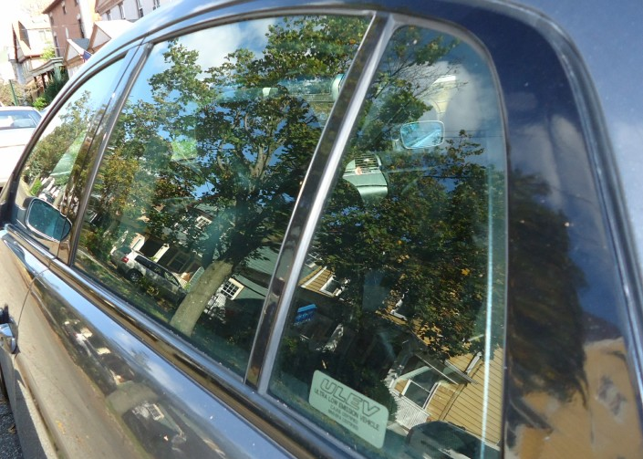 Reflection of trees and sky and houses in a car window.